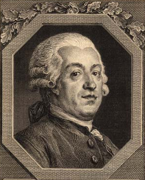 Charles-Georges Fenouillot de Falbaire de Quingey Engraved portrait appeared as the frontispiece to Oeuvres de M. de Falbaire de Quingey (1787)